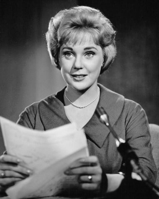 Publicity photo of Connie Hines.